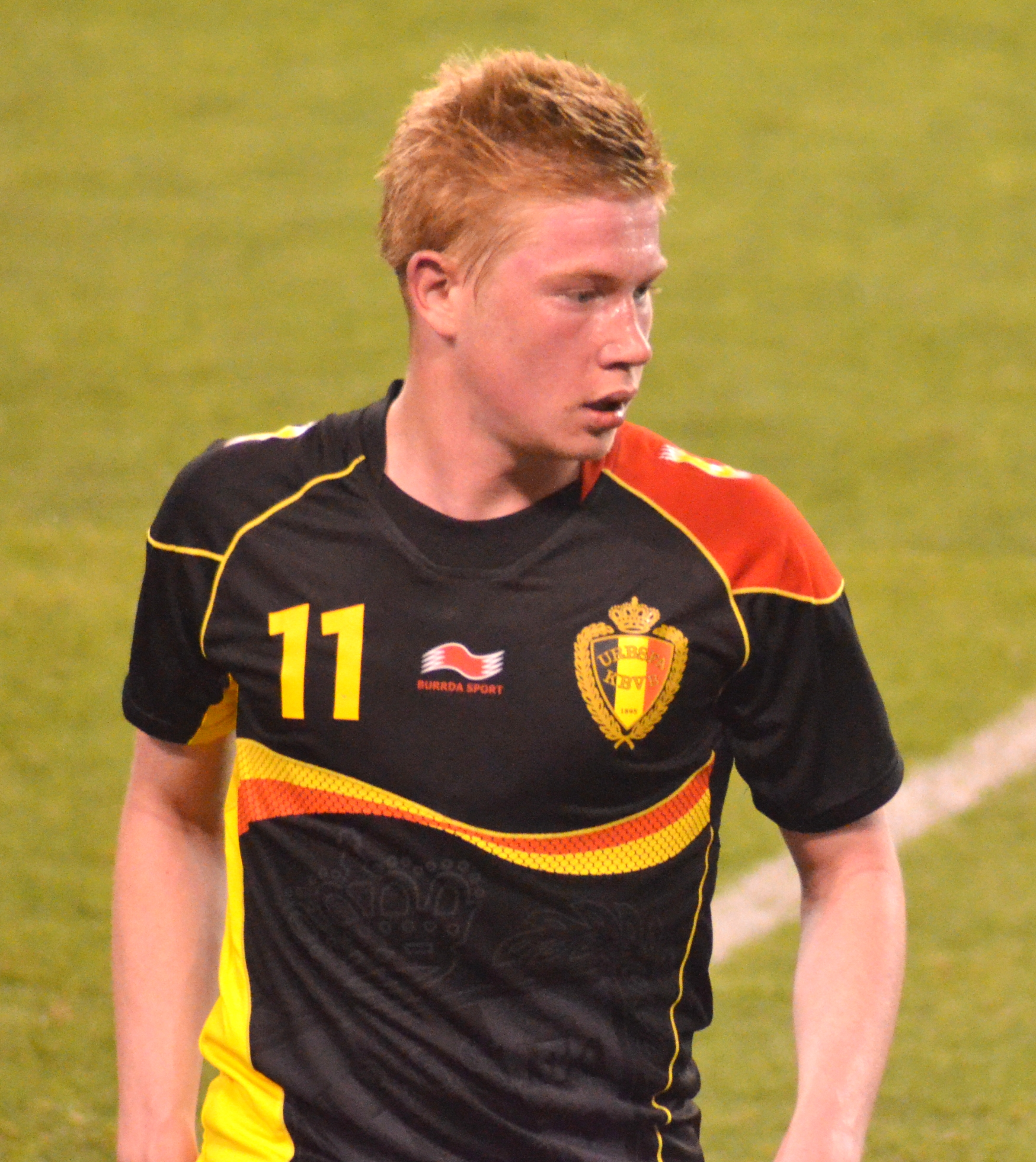 FirstEnergy Stadium Home of the Cleveland Browns